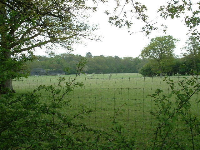 Grazing near Knepp Castle. Looking SE into the square